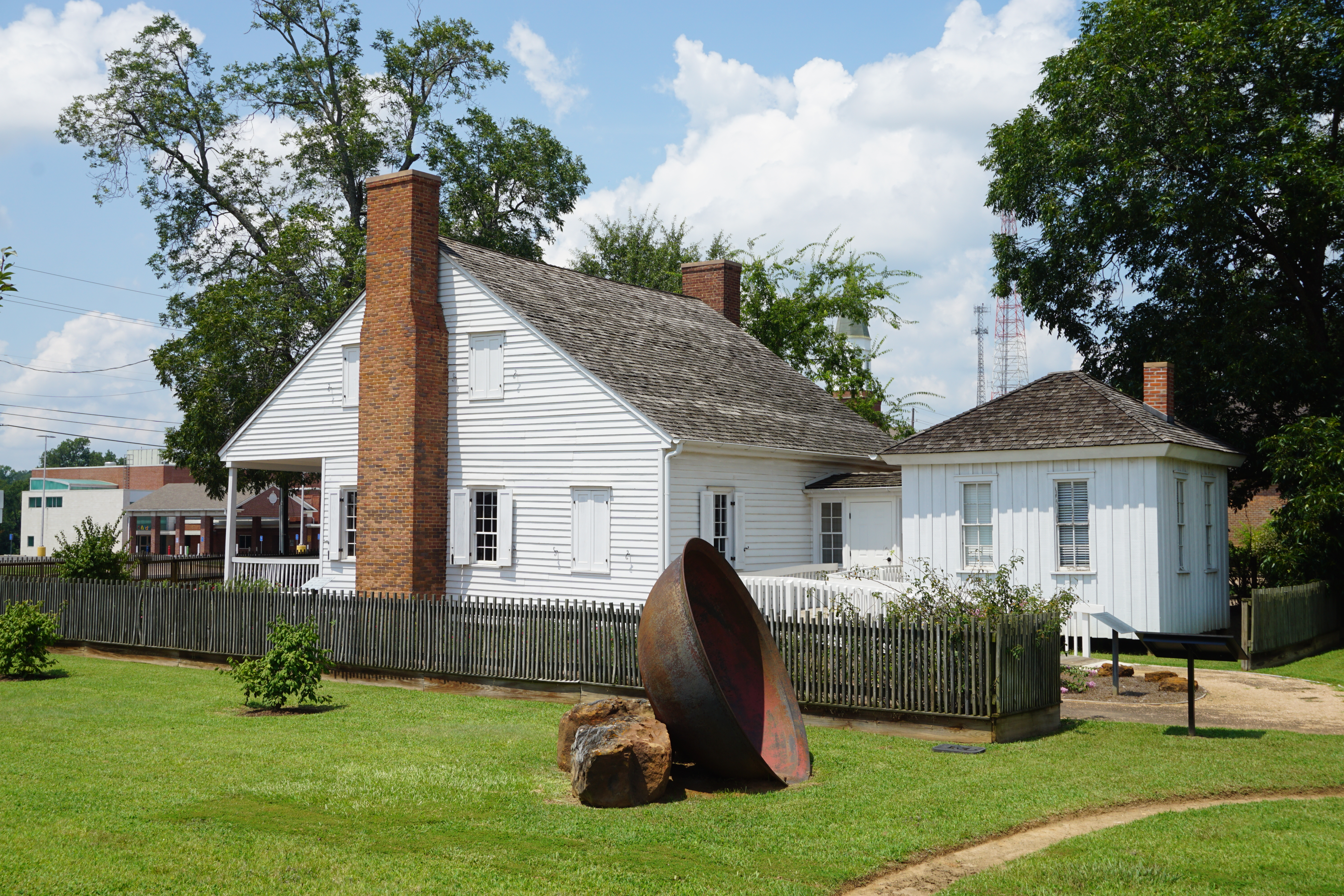 The Durst-Taylor Historic House and Gardens in Nacogdoches, Texas (United States).